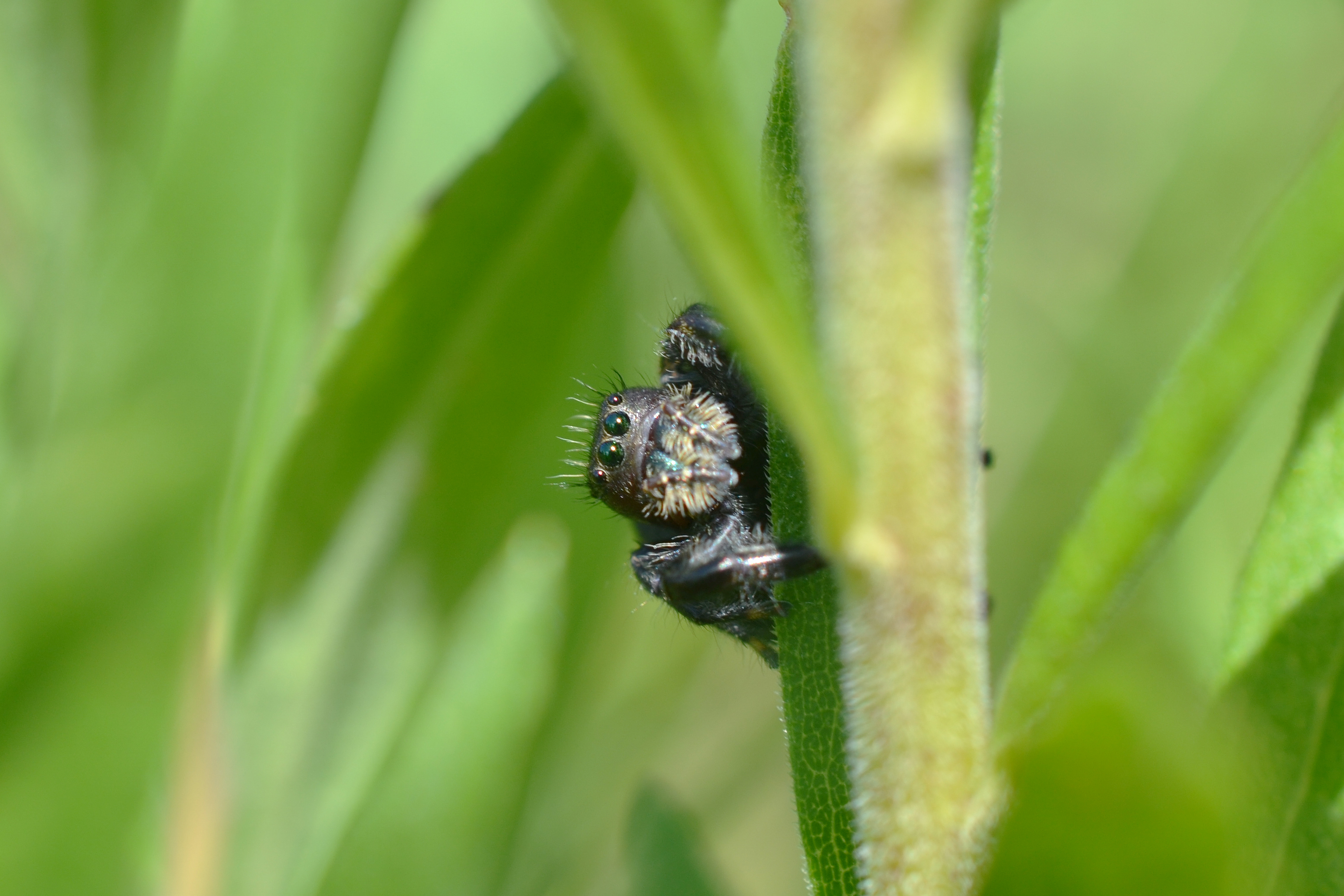 Ellis Lake Wetlands, Fairfield, Ohio